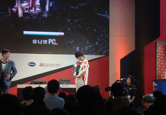 Bacchus Starleague winner Flash